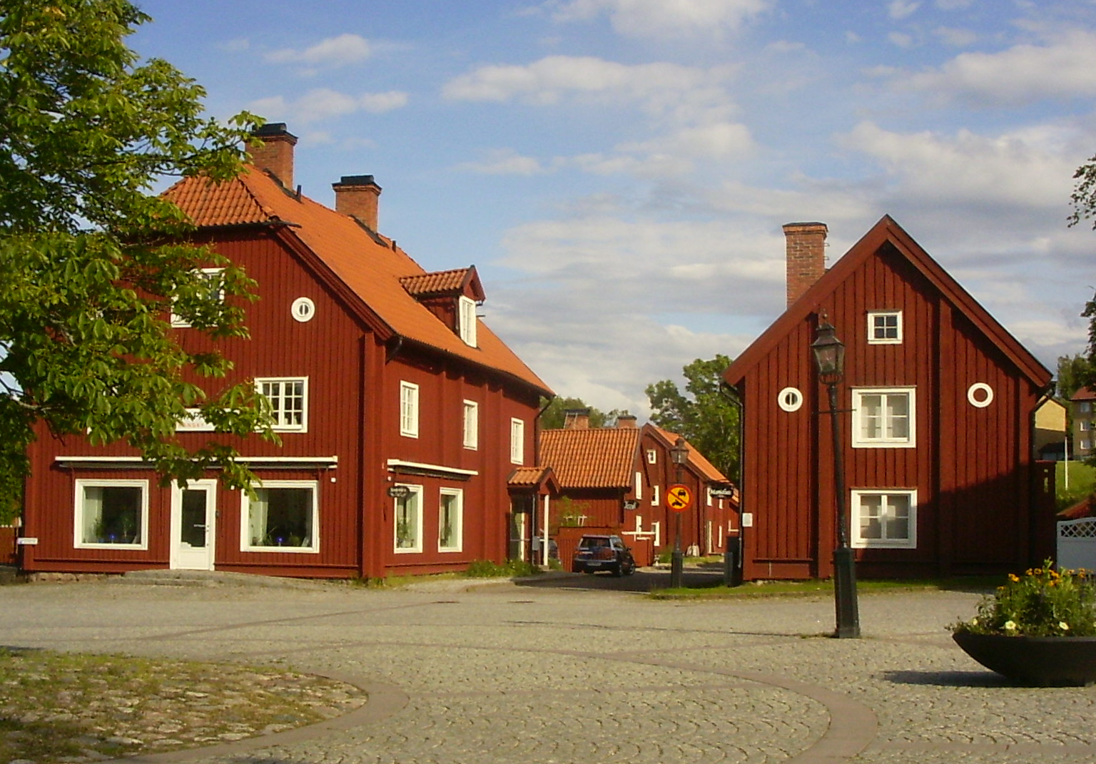 Åtvidaberg, old town square, looking into Verkstadsgata